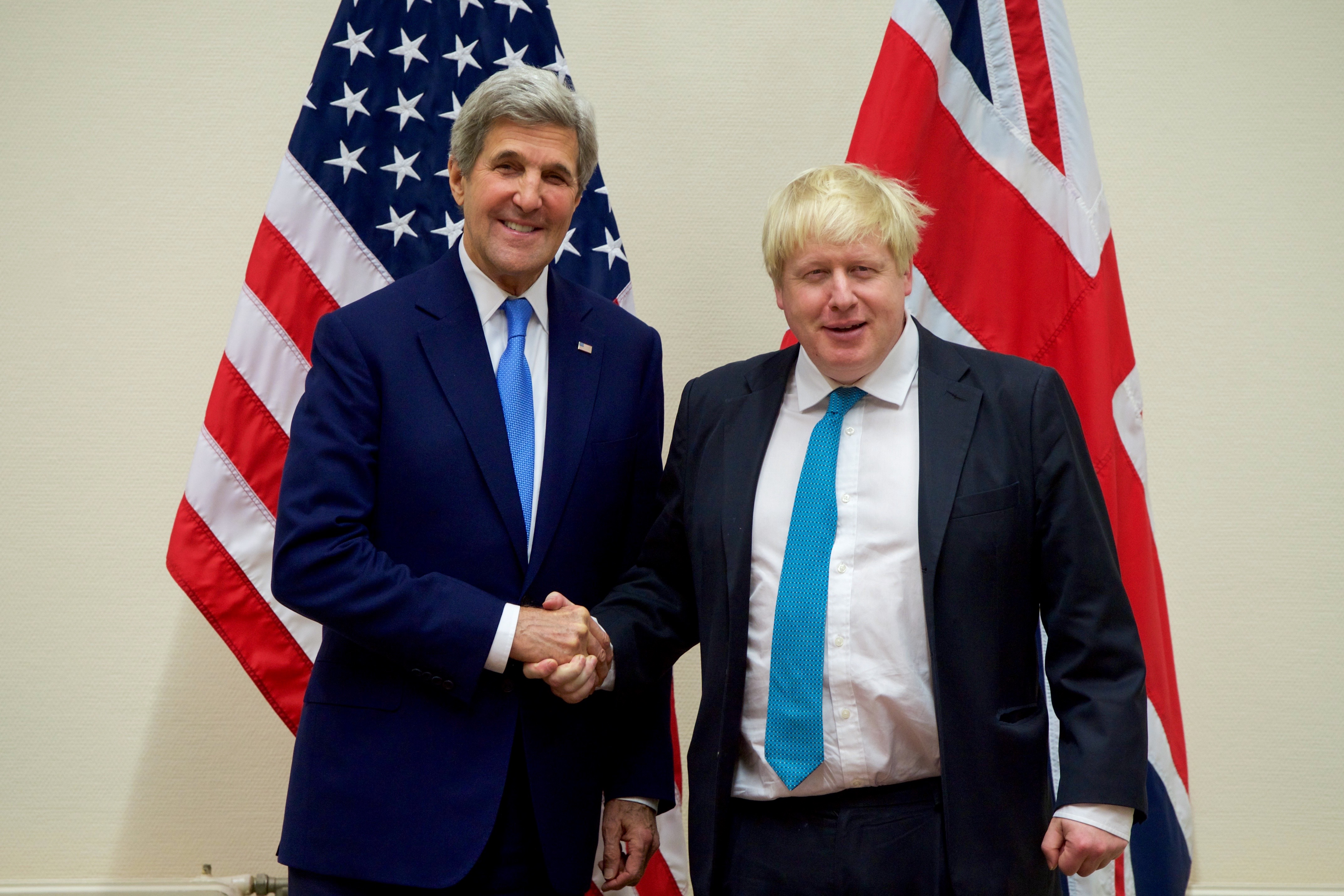 U.S. Secretary of State John Kerry shakes hands with British Foreign Secretary Boris Johnson on December 6, 2016, before a bilateral meeting as they both attend a North Atlantic Treaty Organization Ministerial Session at the alliance's headquarters in Brussels, Belgium. [State Department photo/ Public Domain]